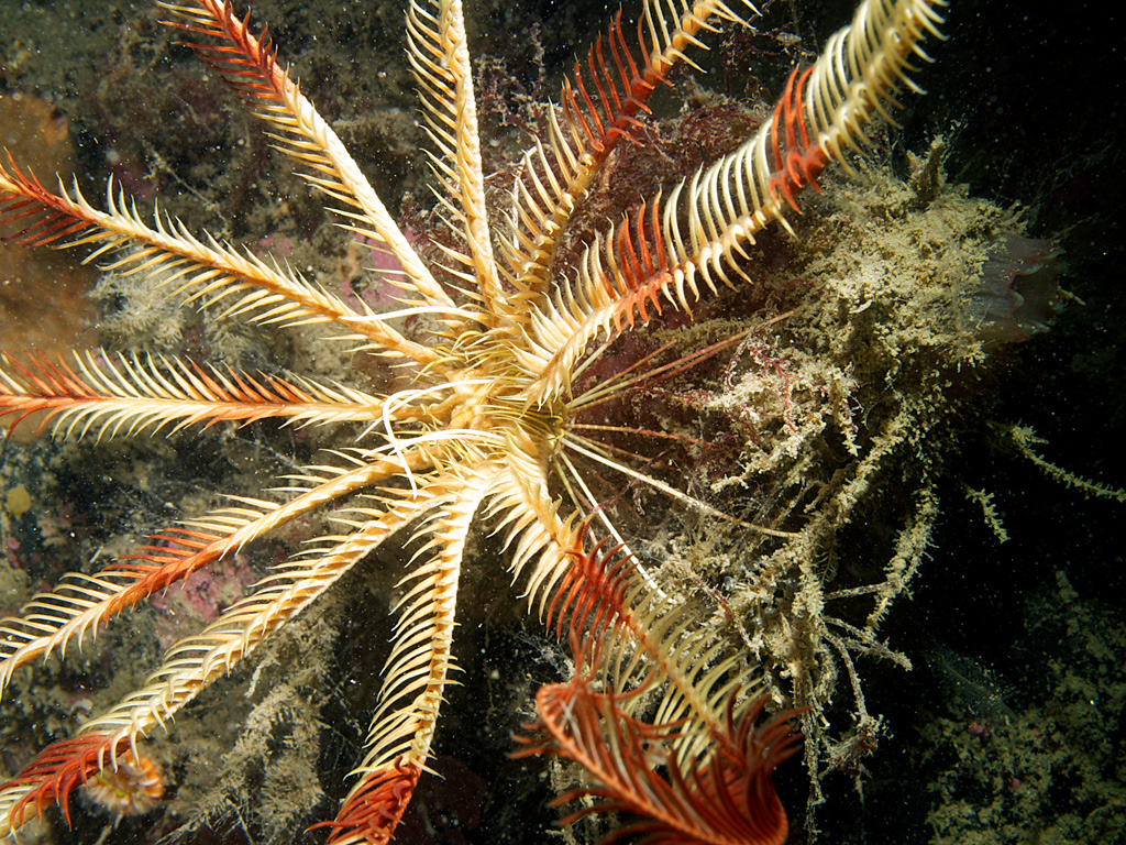 Leptometra celtica, a feather star. The Garvellachs, western Scotland, UK.